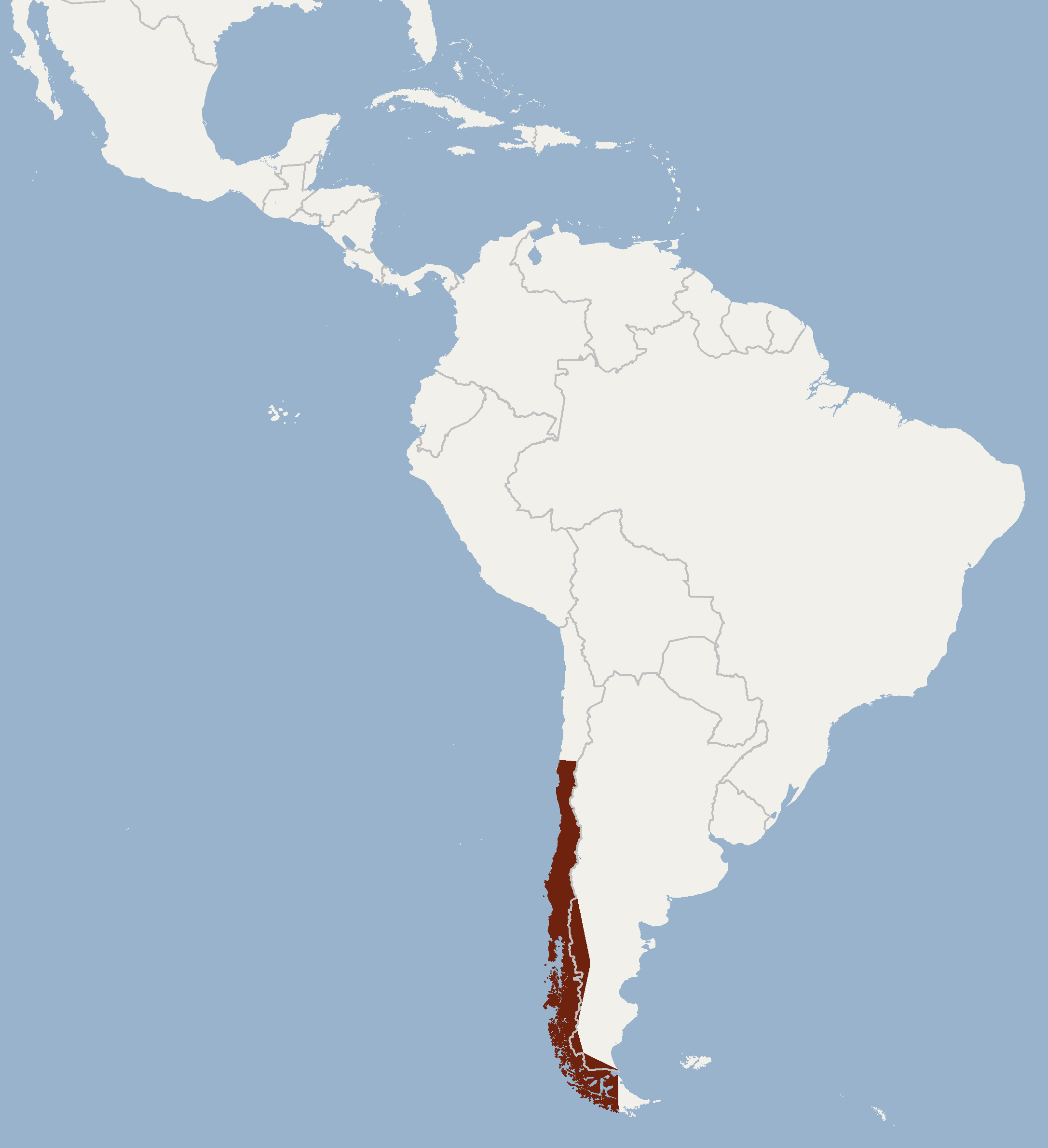 Geographical distribution of Lasiurus varius according to Eisenberg & Redford, 1992